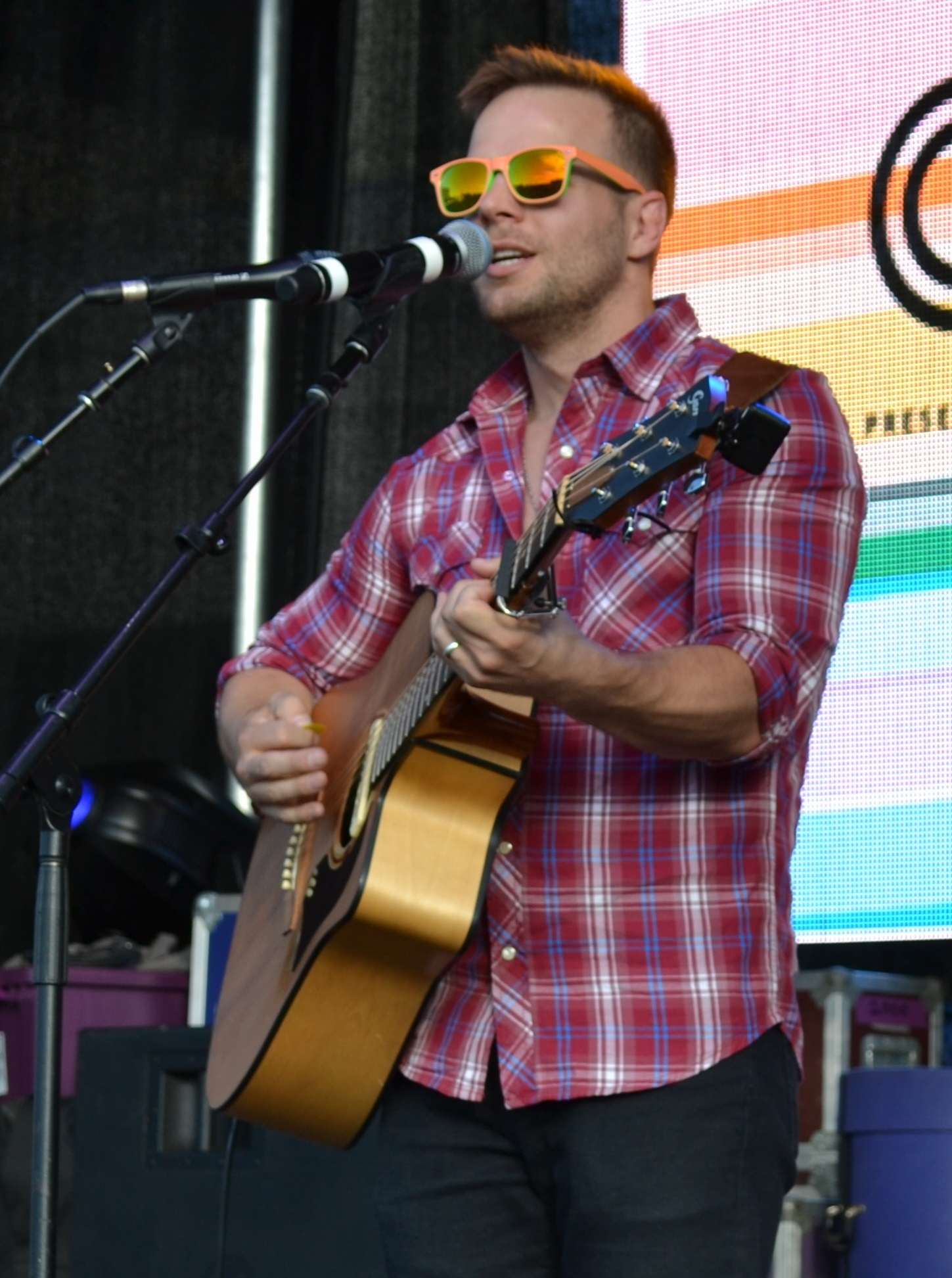 Tom Goss performing at the Gay Games Festival Village in Cleveland, OH in 2014